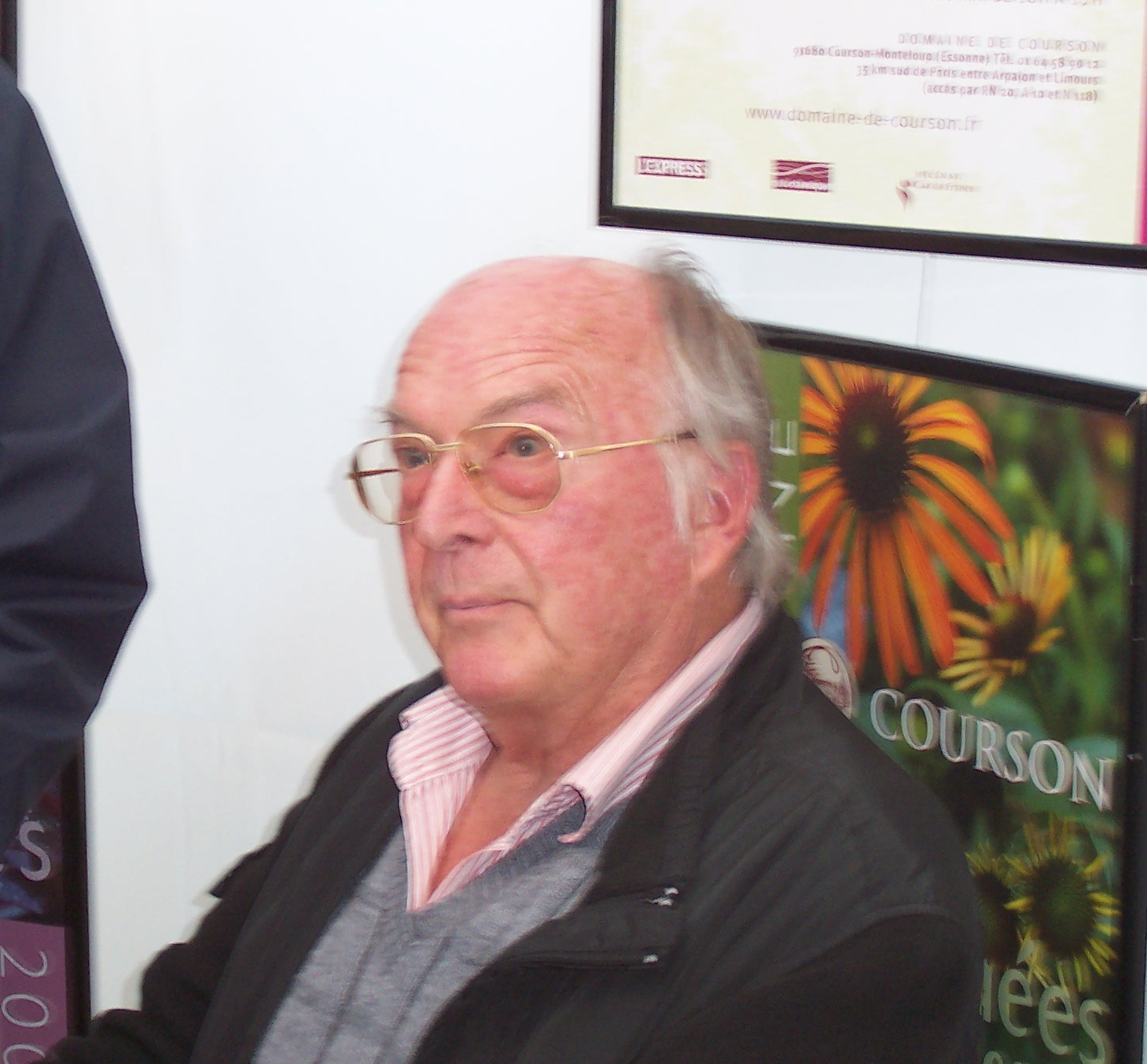 Autograph session with Francis Hallé, at plants show of Courson, in spring 2009 (Essonne, Île-de-France, France).